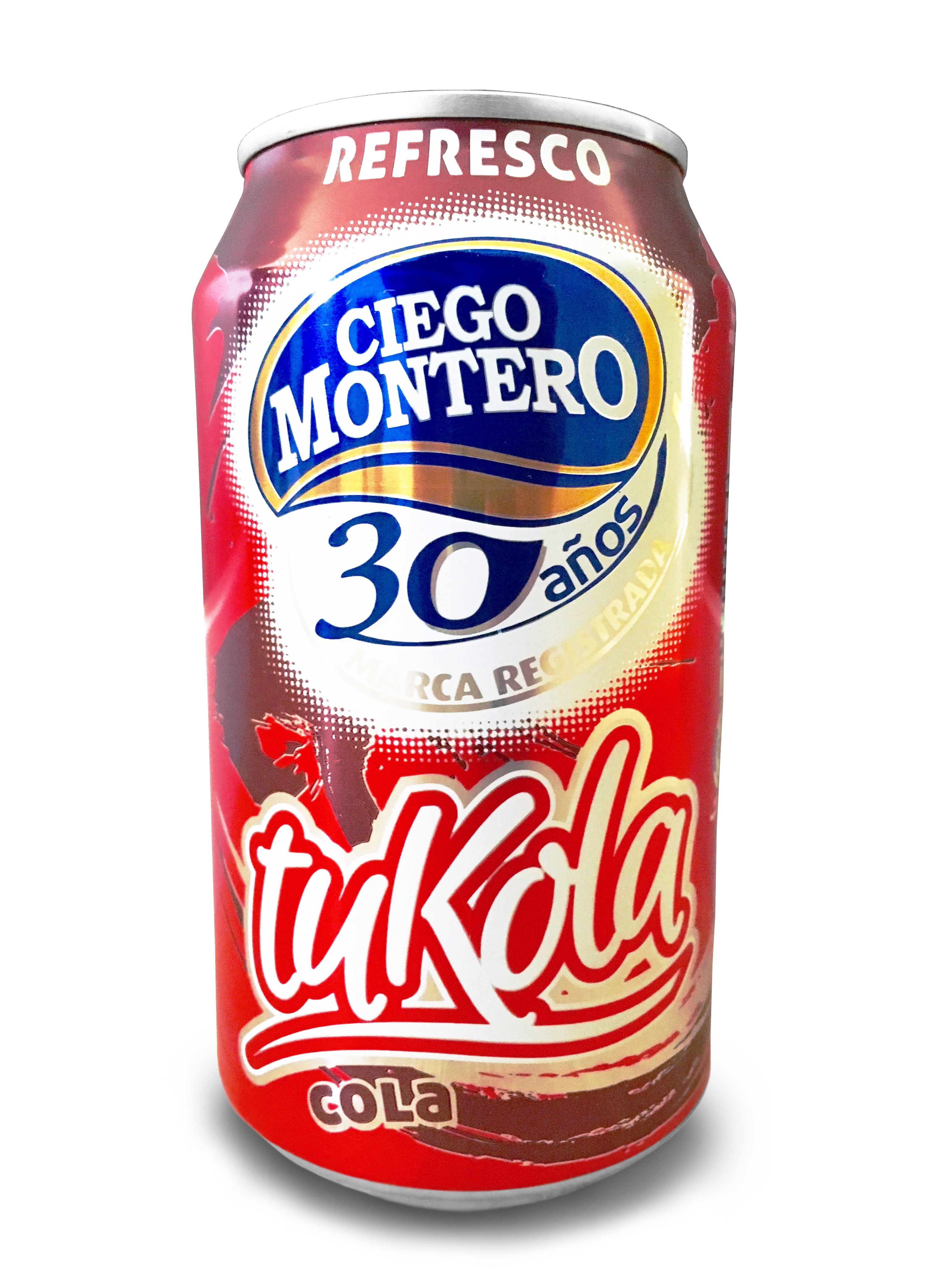 Tin of tuKola